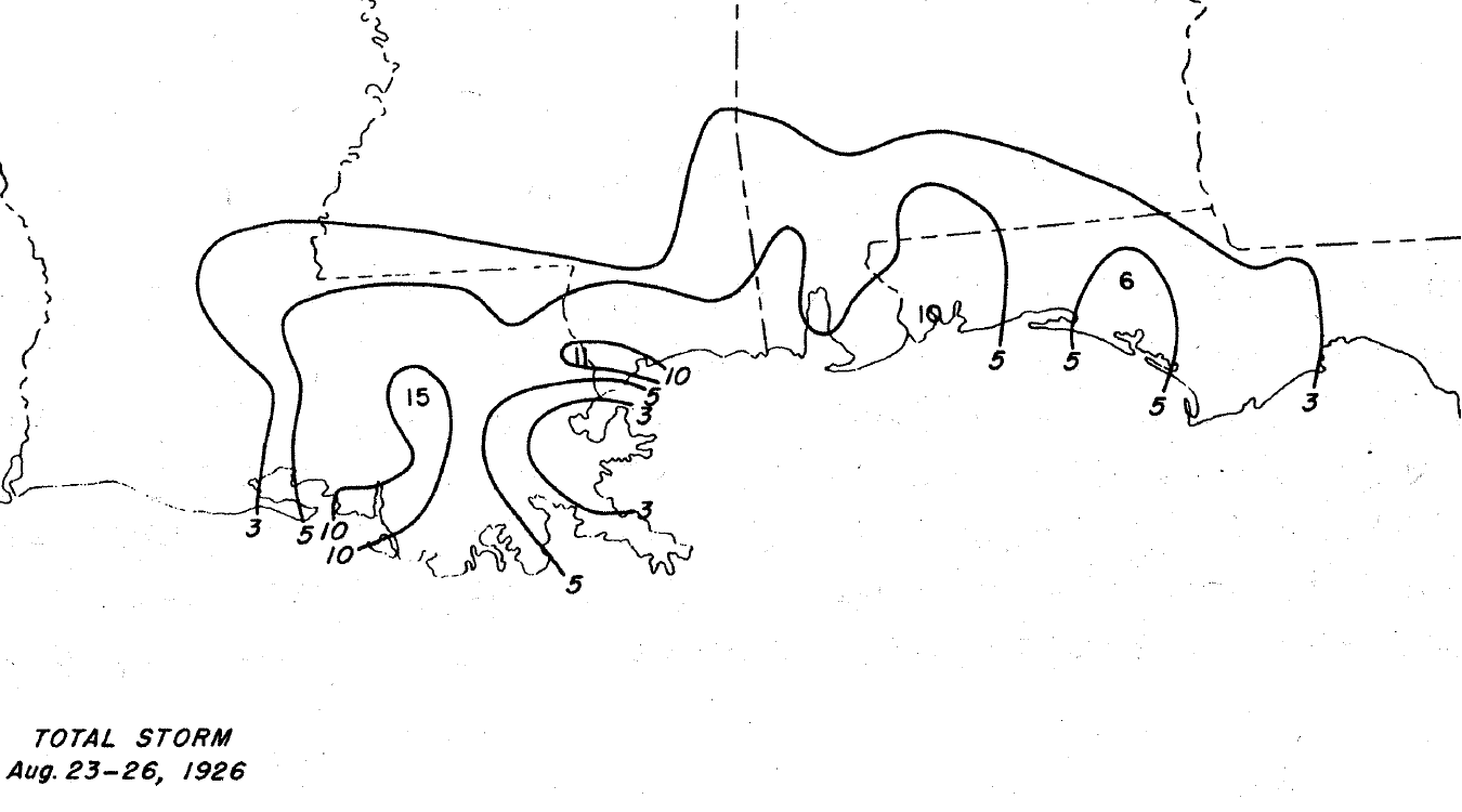 Rainfall totals for Hurricane Three (1926) when it made landfall on Louisiana.